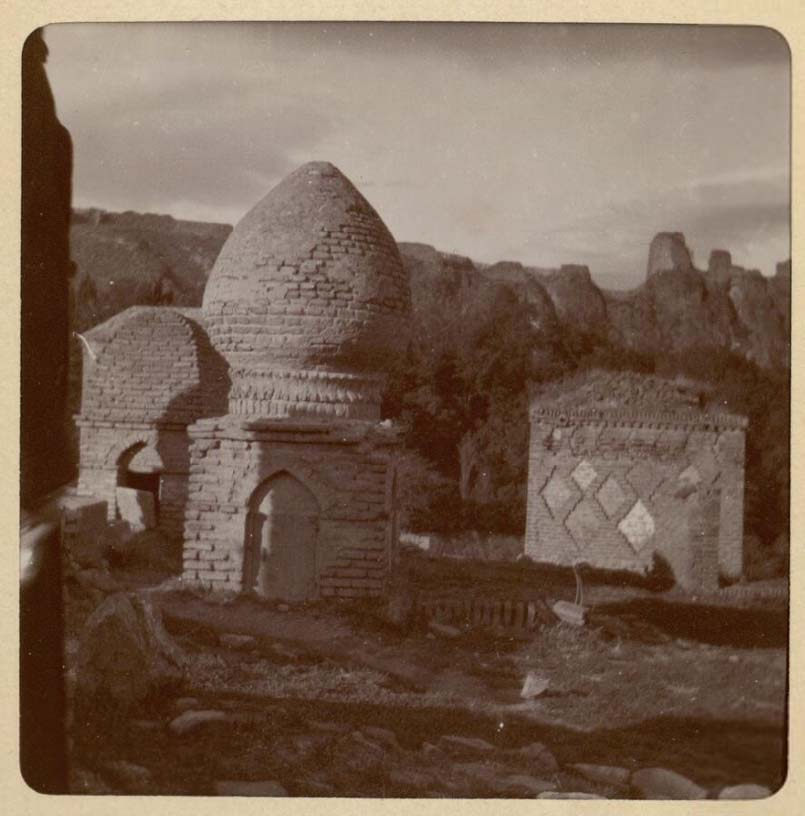 Said thomb at Muslim cemetery, Tbilisi (Baron de Baye photo)